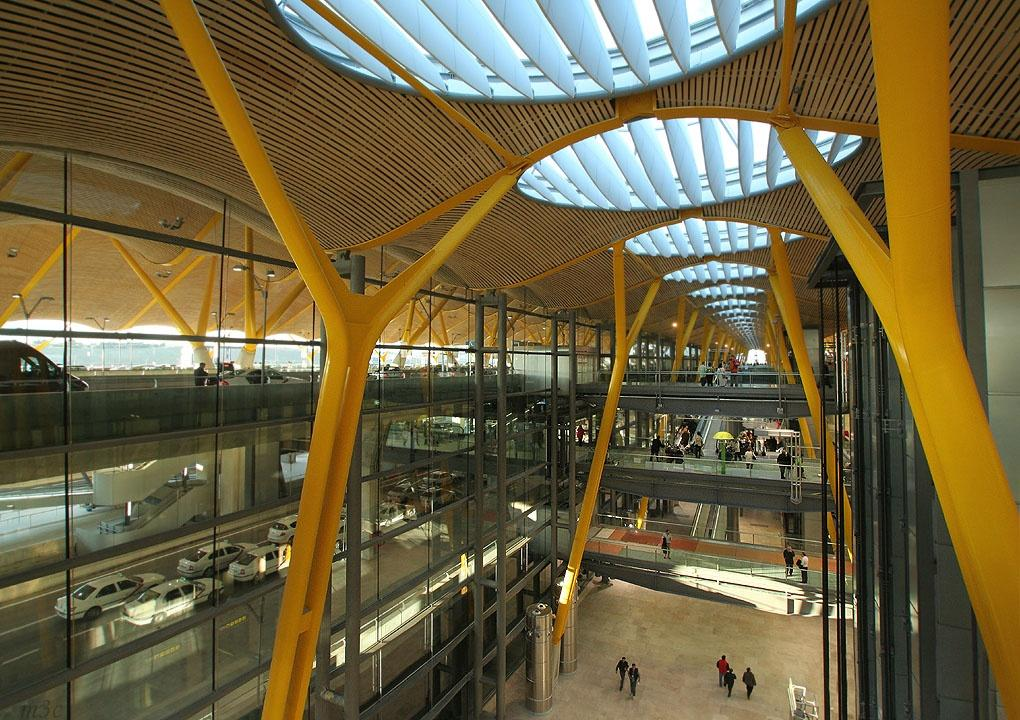 Entrance of Terminal 4 at Madrid Barajas Airport . Upper level for Departures, lower level for arrivals , taxi area . Underground level to Metro Station and APM . Terminal 4 have 6 levels ( 3 underground ).